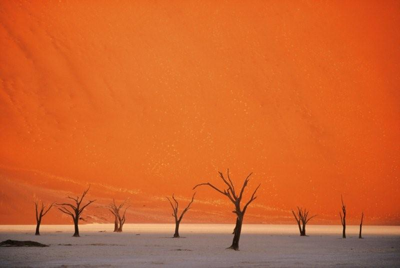 Dead acacia trees (Acacia erioloba) in Dead Vlei, near Sossusvlei, Namibia